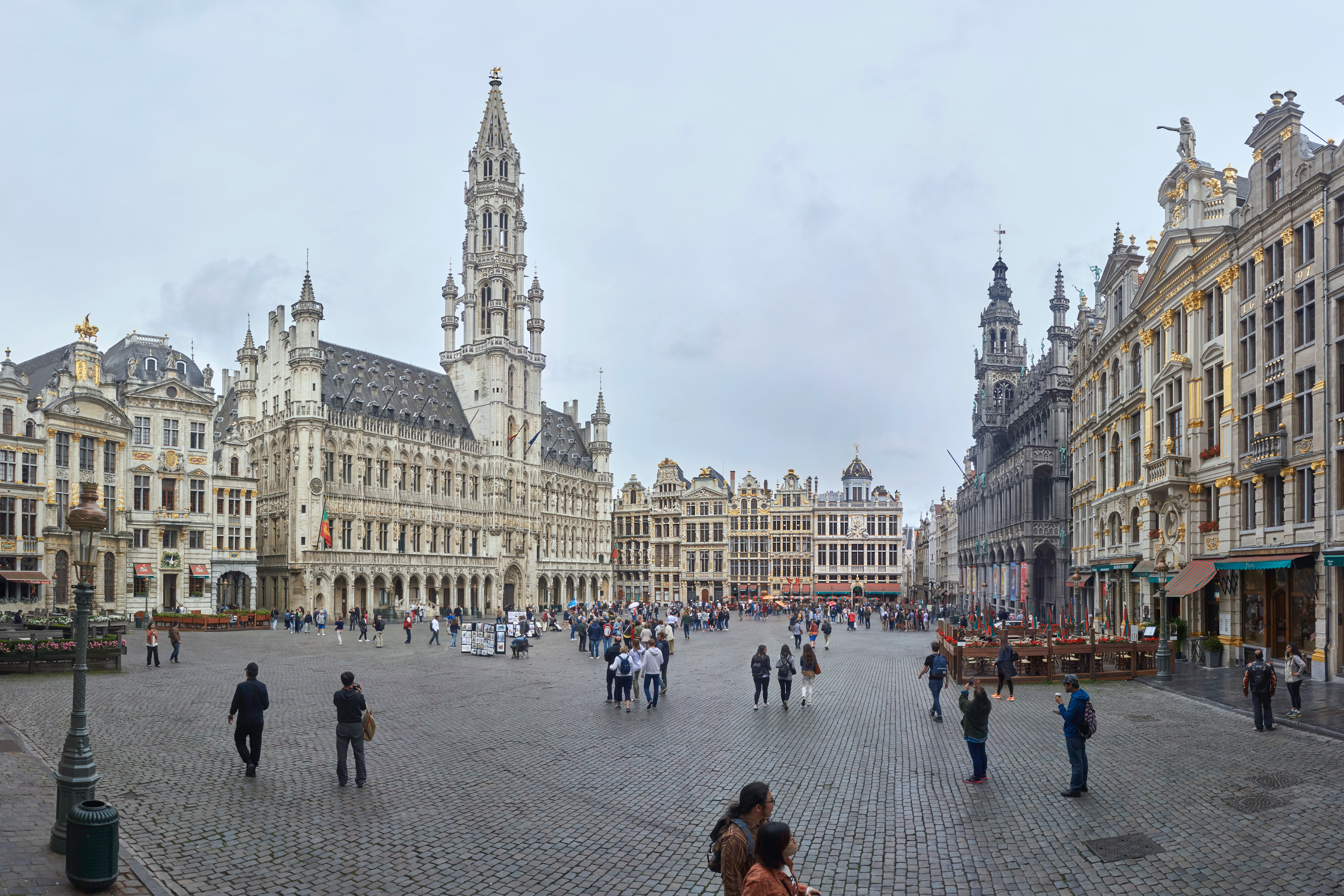 Panorama of the Grand-Place, Brussels, Belgium taken in June 2018